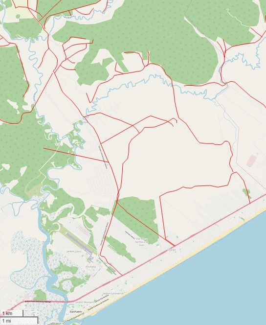 Decauville banana railways near Itanhaém around 1960 (according to the Instituto Geográfico e Geológico de São Paulo and Nílson Rodrigues) superimposed onto a modern map